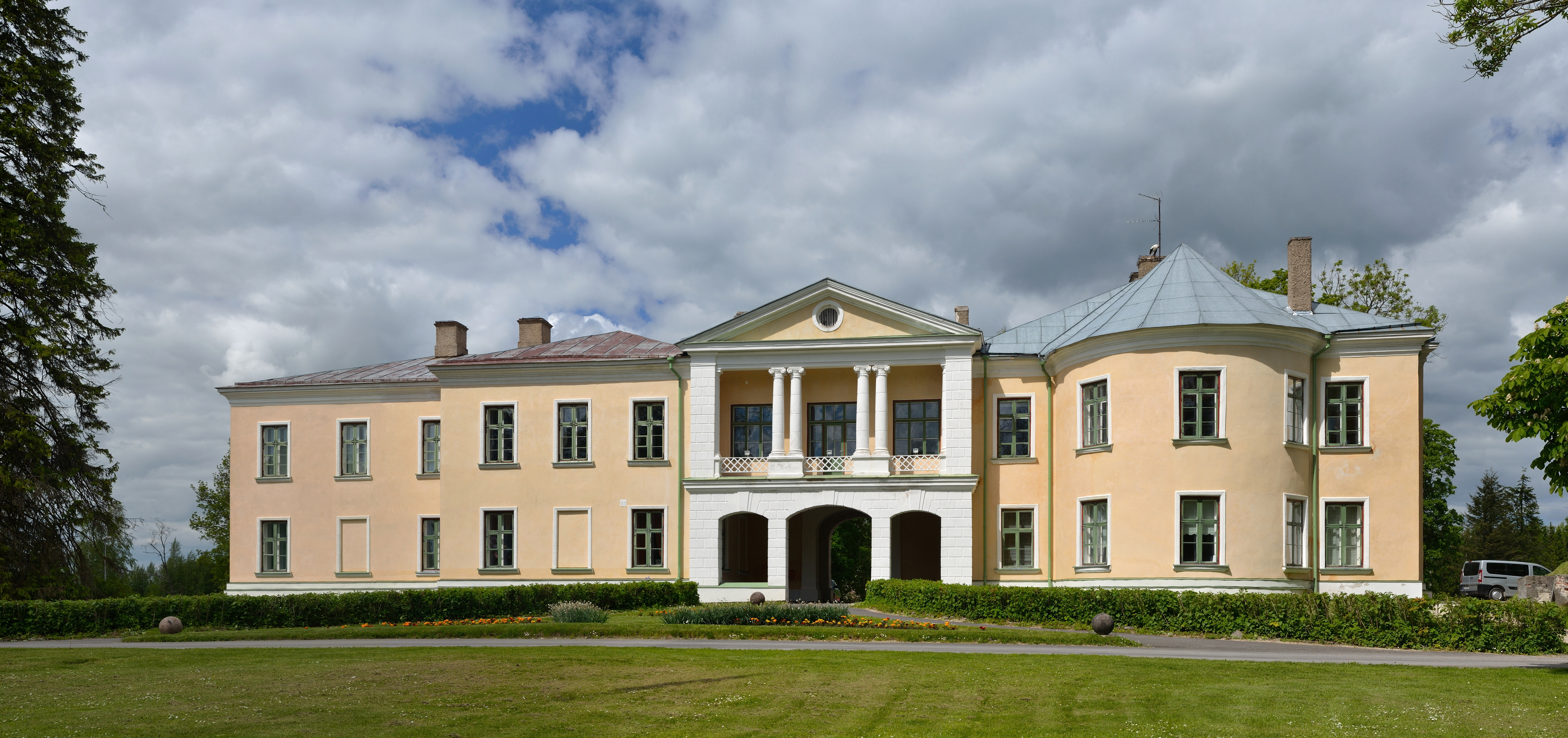 Mõdriku manor main building, near Rakvere, Estonia. The initial part of the building was built in the end of the 18. century.